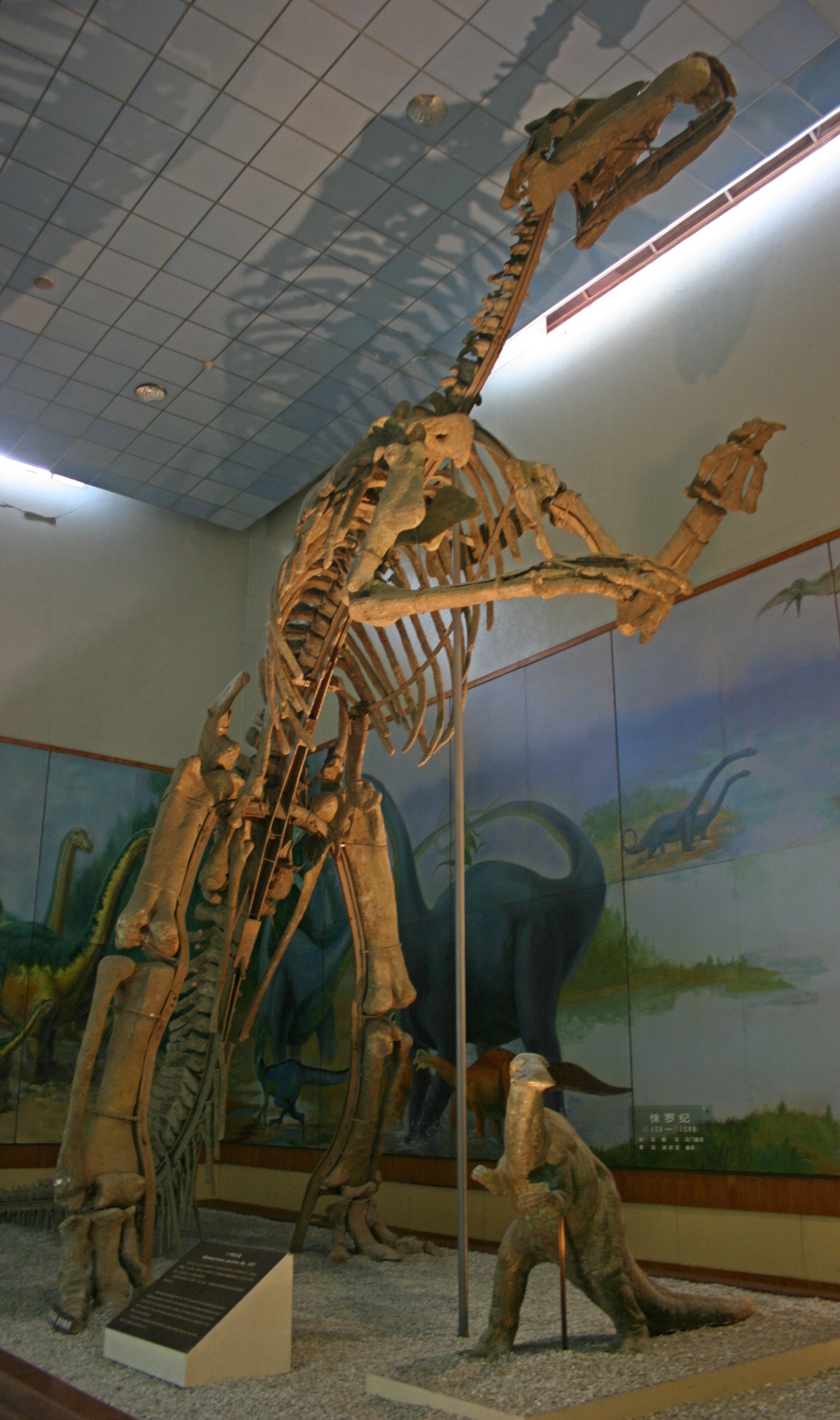 Photograph of a fossil skeleton of Shantungosaurus on display in the Shandong Provincial Museum in Jinan, China.